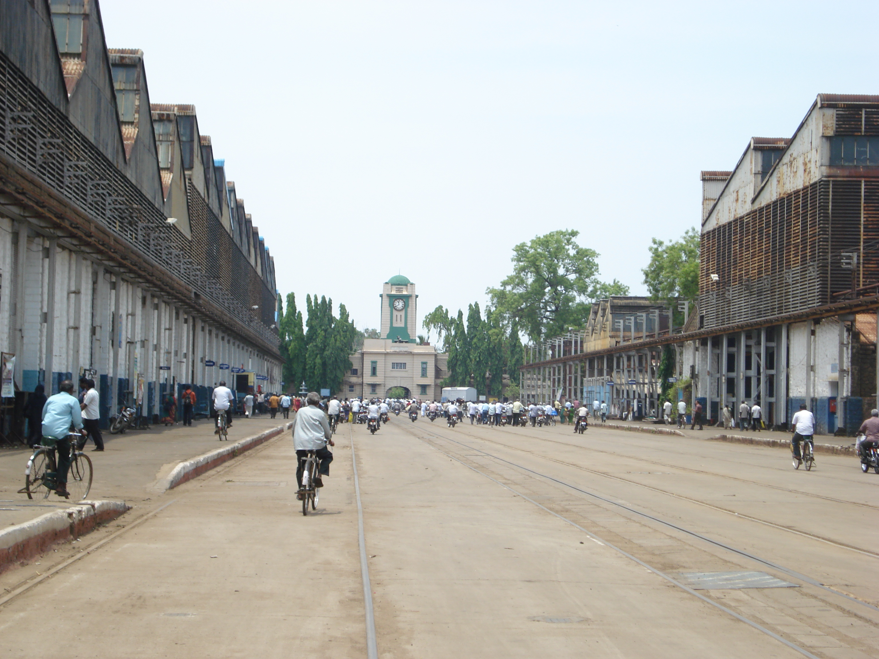 The most popular entrance for the workshop with a century-old analog clock installed by the British during the construction of the workshop. Also known as South entrance of Central Workshop, Golden Rock, Tiruchirapalli.